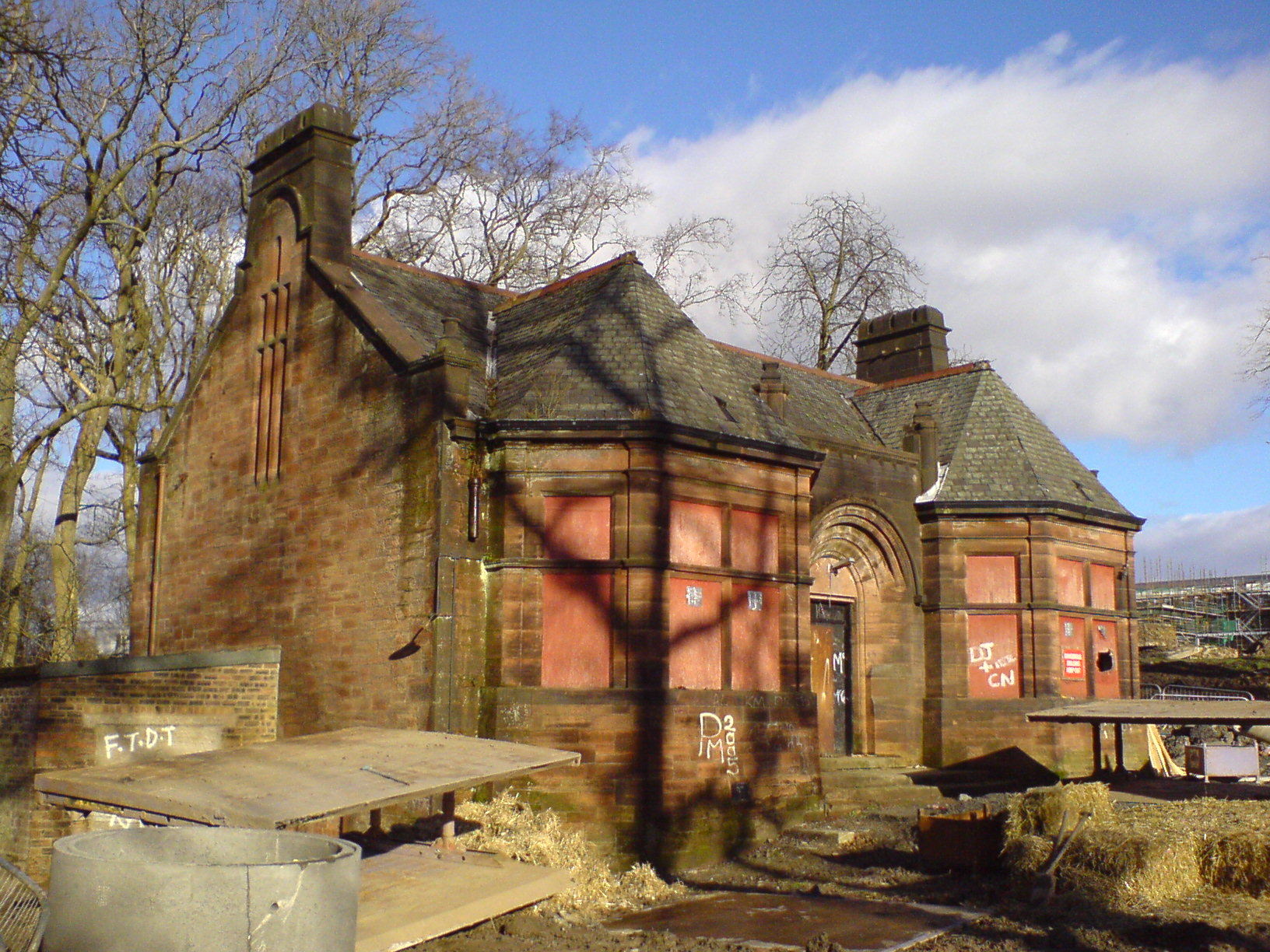 Mortuary block at former Gartloch Hospital, Glasgow, Scotland.